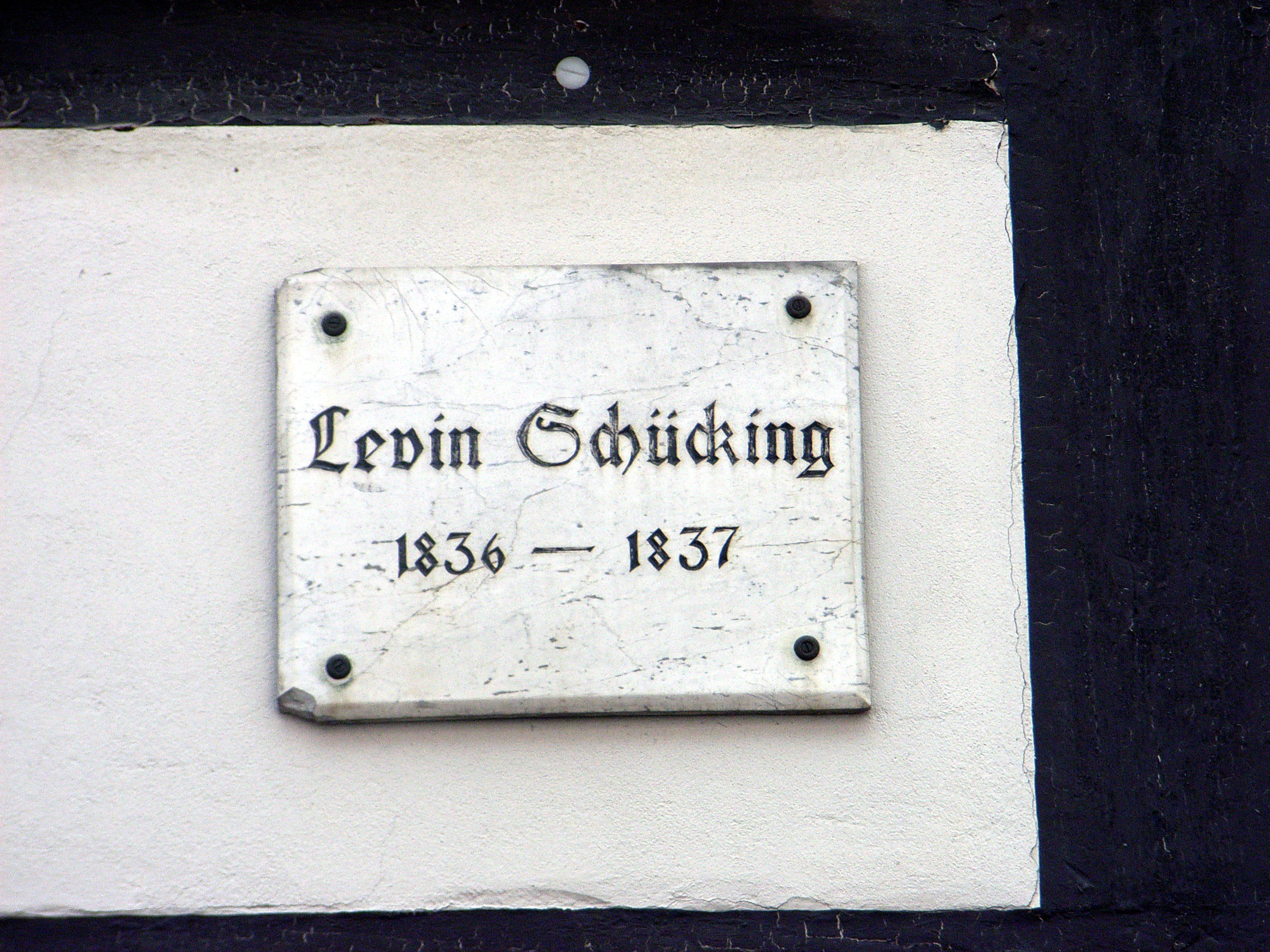 This image shows a informationsign in Göttigen.